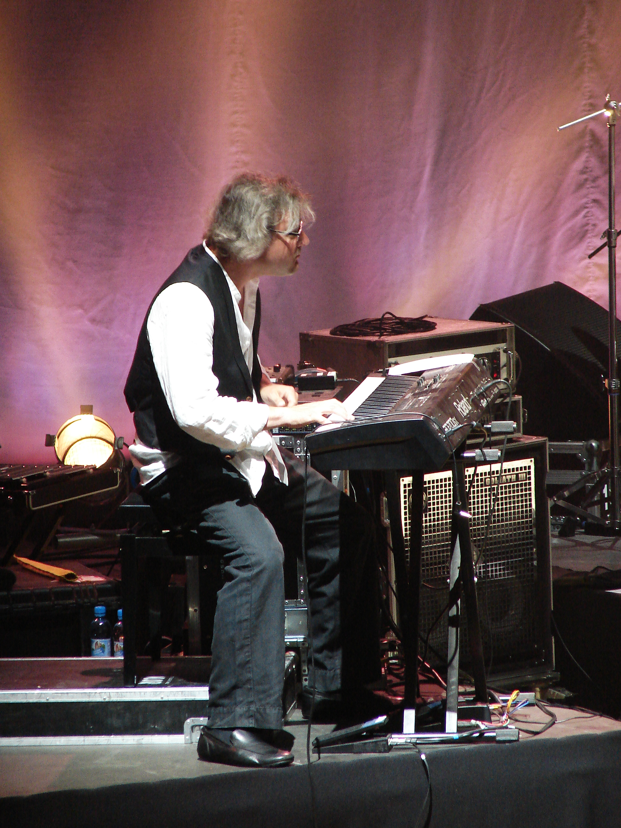 Musician John O'Hara during Jethro Tull concert in Warsaw 2009-09-01